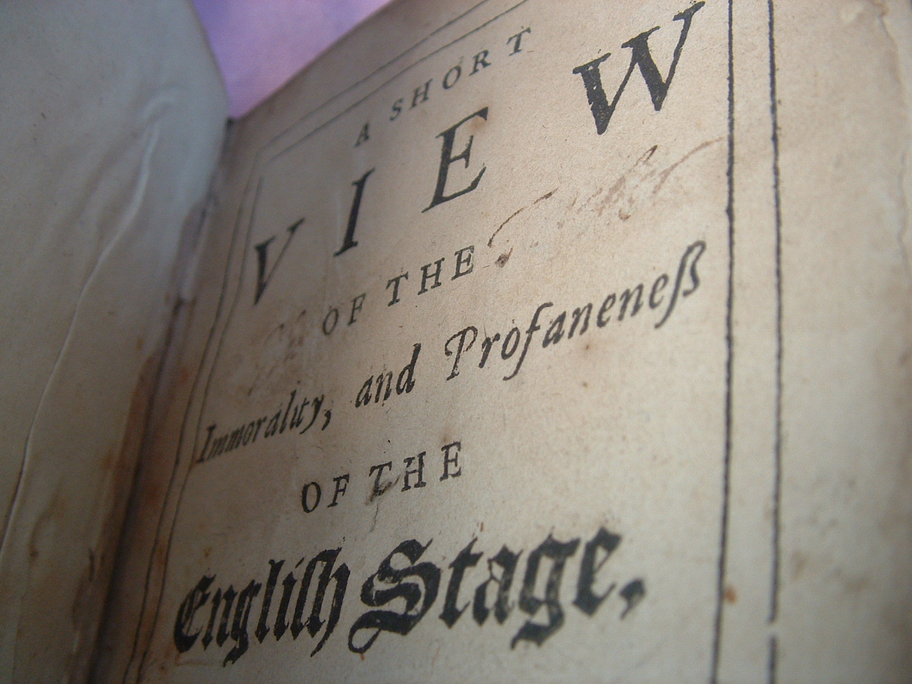 Top of the title page of Jeremy Collier's 'A Short View of the Immorality and Profaneness of the English Stage'